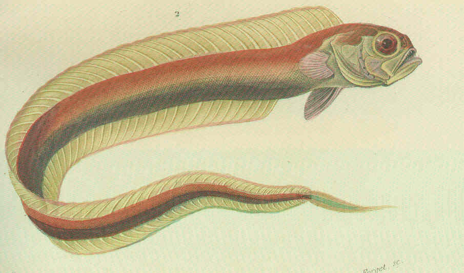 Coepola rubescens Subject: Giant stargazer Tag: Fish